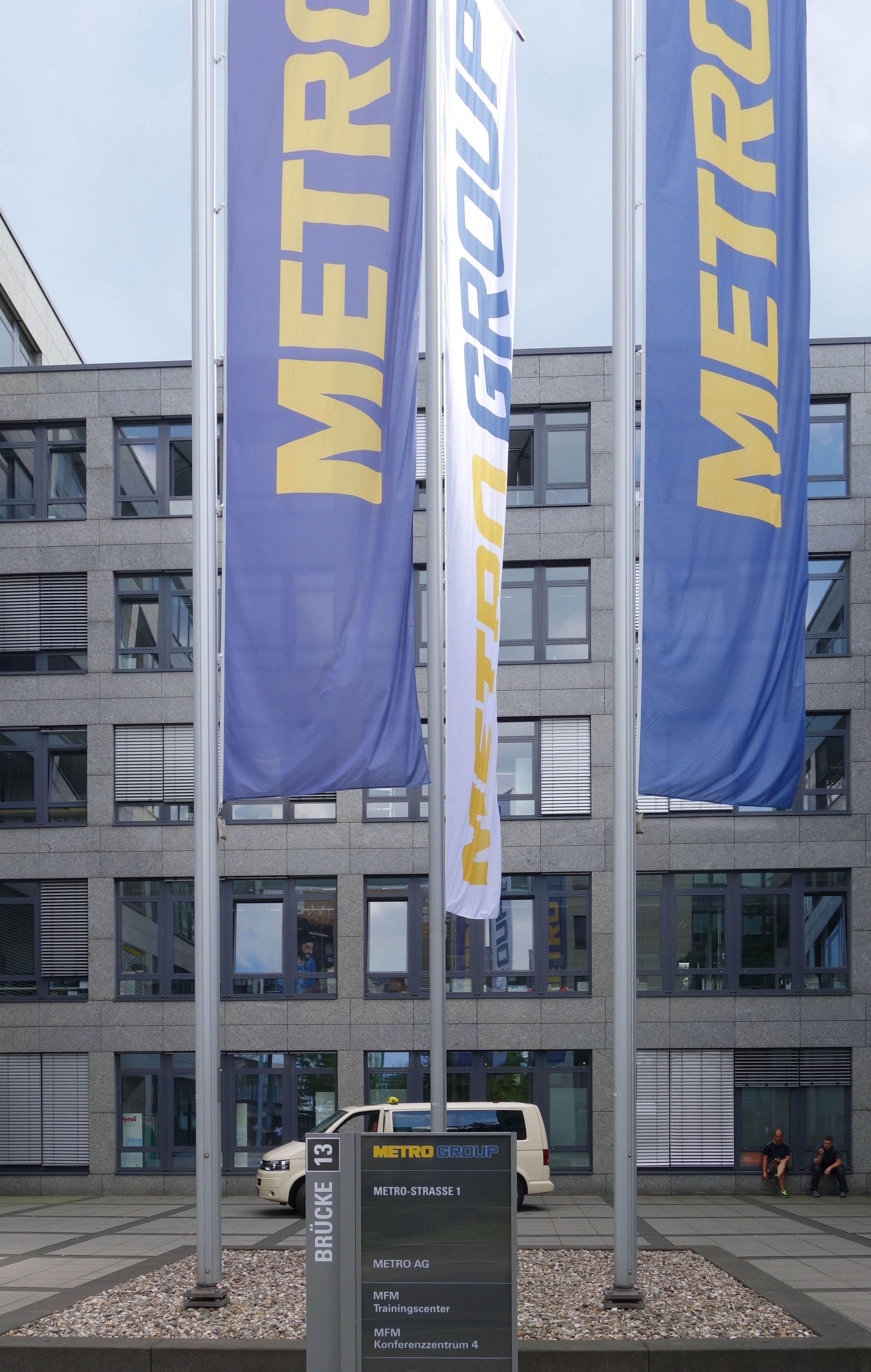 Head office of Metro Group in Düsseldorf on 14 August 2015. Metro-Straße 1 (Entrance 13).